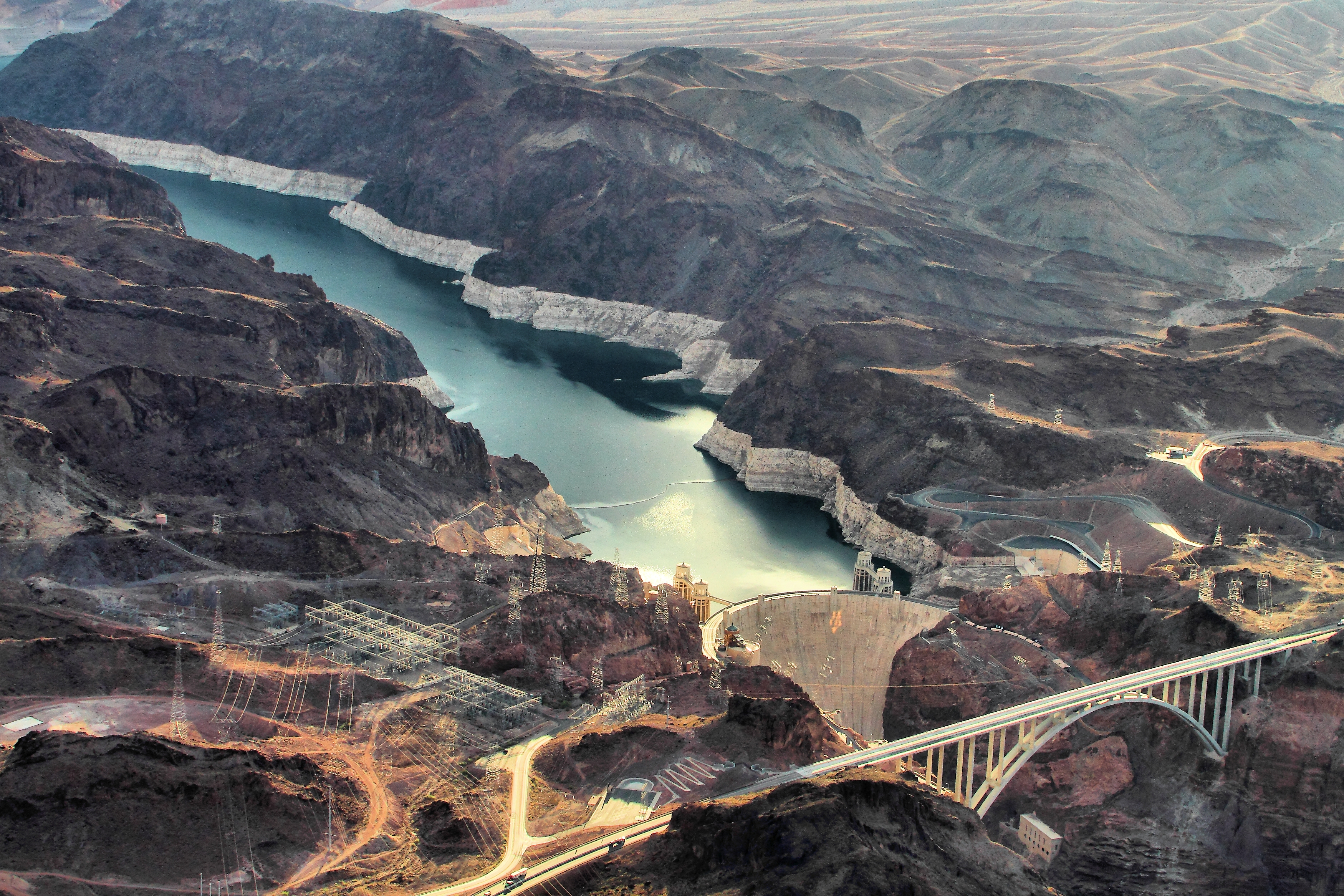 Hoover Dam